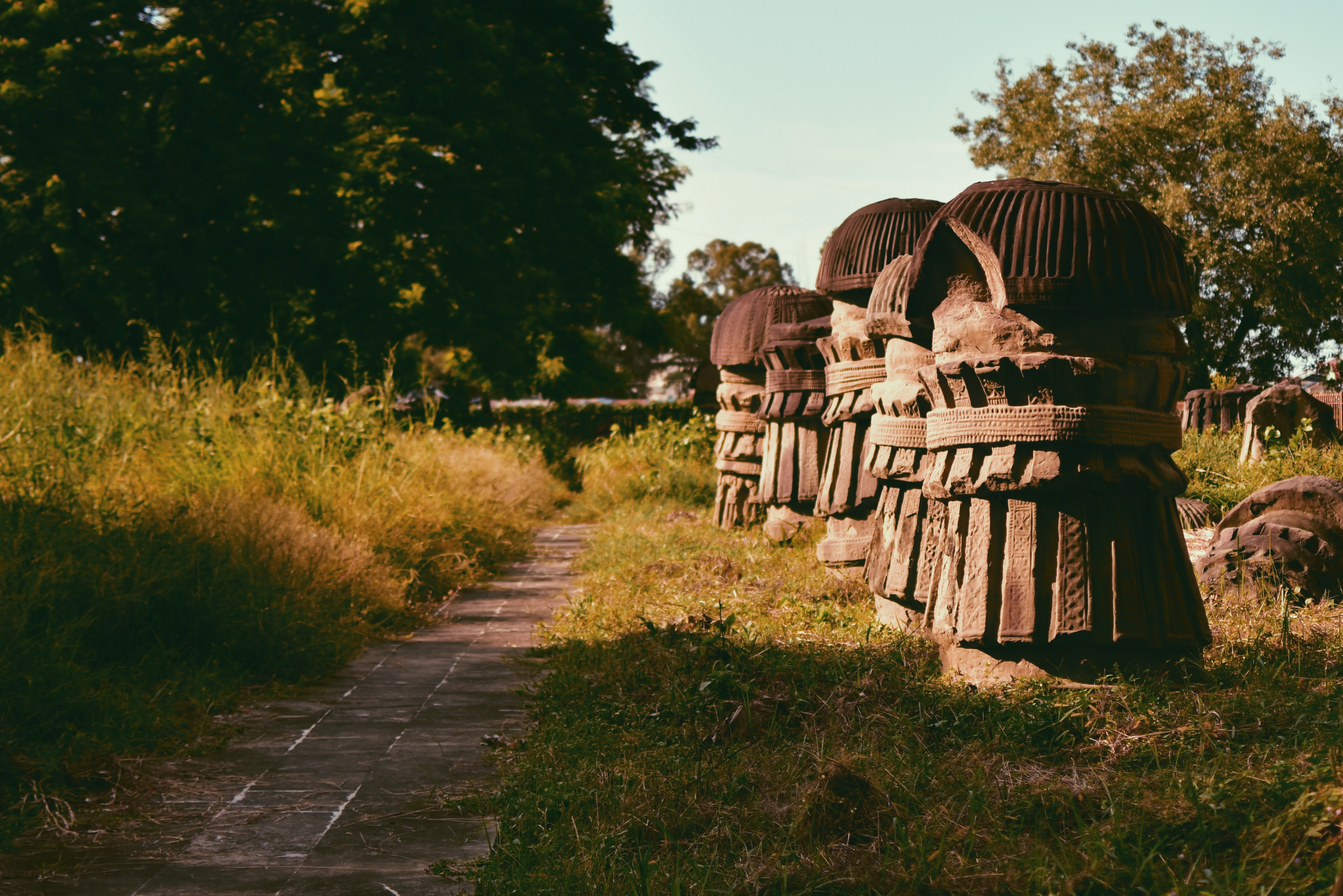 Kachari ruins form a nice amalgam of Indian mythology and history, one can witness these chessboard like pillars in the present day town of Dimapur, which represents the town of Hadimbapur (as in mythological stories of Mahabharata), as per mythology Bhim and Hadimba got married here and gave birth to Ghatotkach. As per local folklore its said that Bhim and his child used to play chess here with these pieces. However nowadays this place lies vacant and in a dilapidated state, with almost no security. A piece of history waiting to be explored.